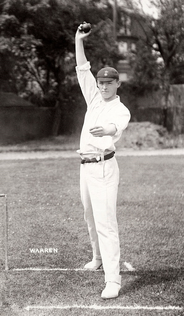 Derebyshire and England cricketer Arnold Warren, circa 1908.